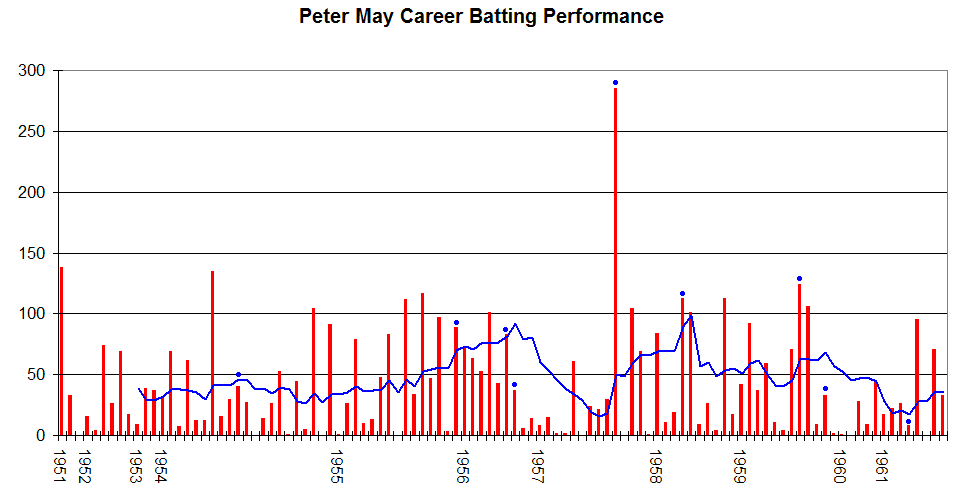 This graph details the Test Match performance of Peter May. It was created by Raven4x4x. The red bars indicate the player's test match innings, while the blue line shows the average of the ten most recent innings at that point. Note that this average cannot be calculated for the first nine innings. The blue dots indicate innings in which May finished not-out. This graph was generated with Microsoft Excel 2002, using data from Cricinfo and .au.